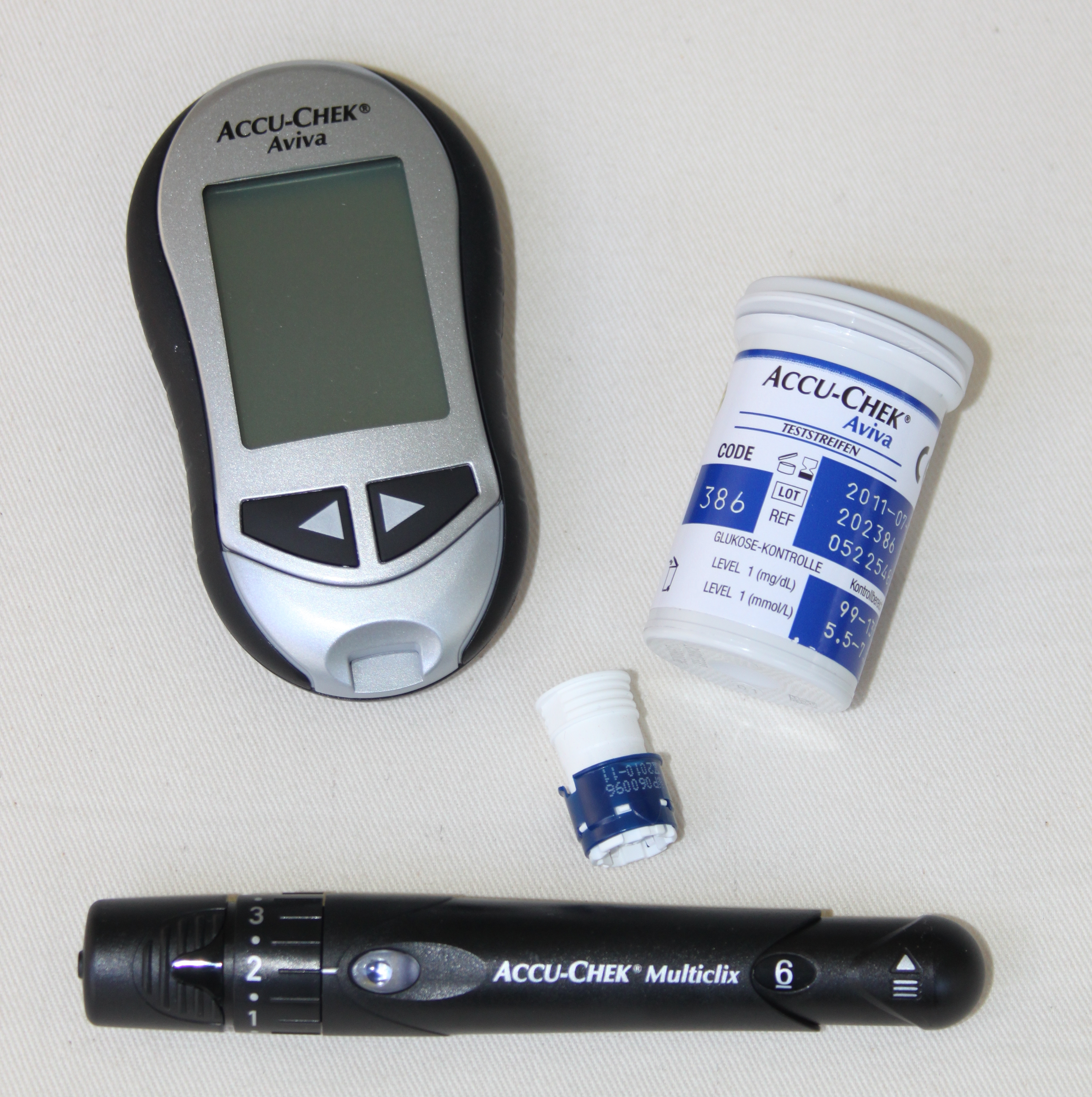 A Glucose Meter (Accu-Chek Aviva) with test strips, lancet drum and lancing device (MultiClix) (made by Roche Diagnostics)